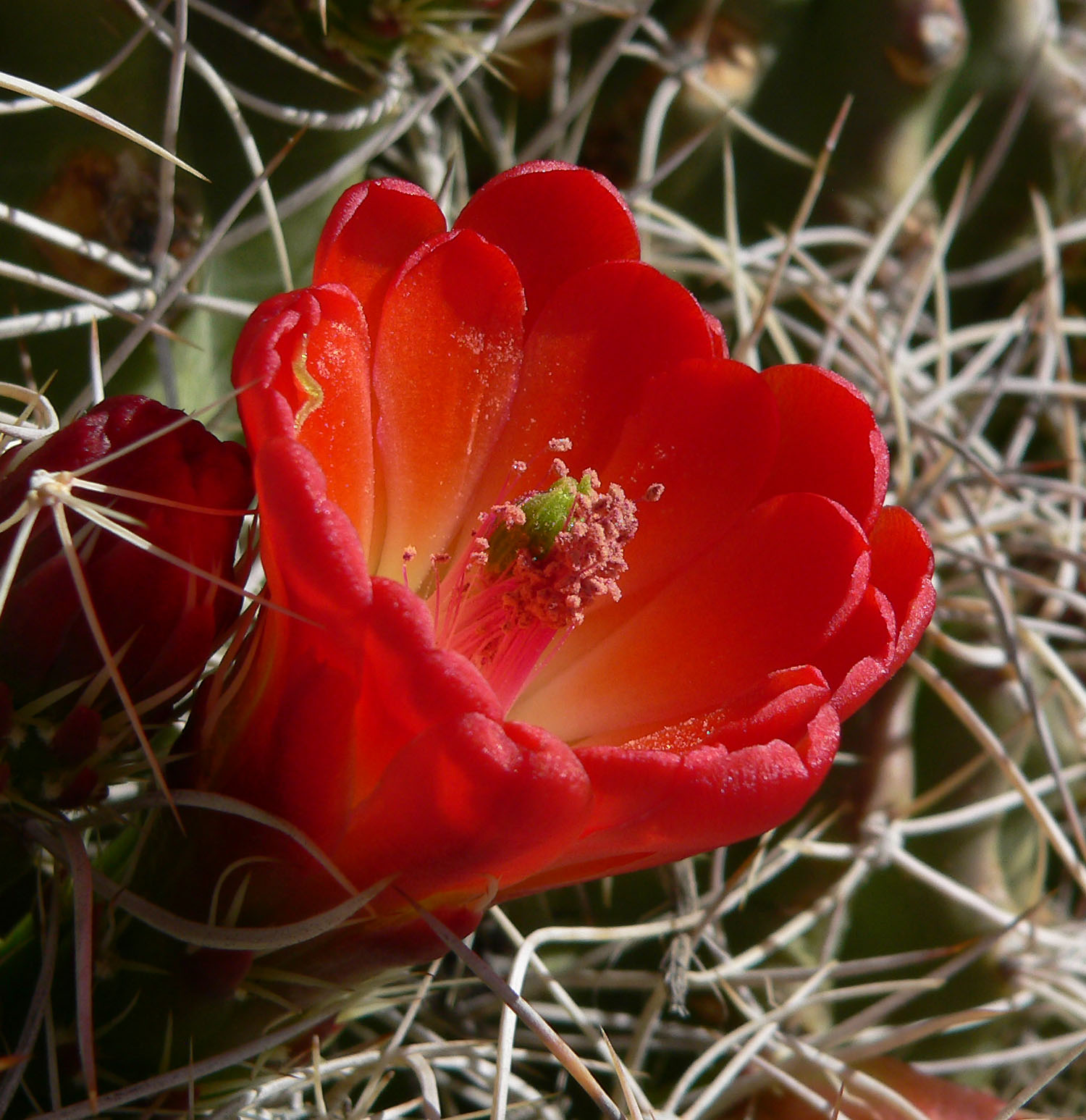 Echinocereus triglochidiatus on Cima Dome near Teutonia Peak, Mojave National Preserve, California